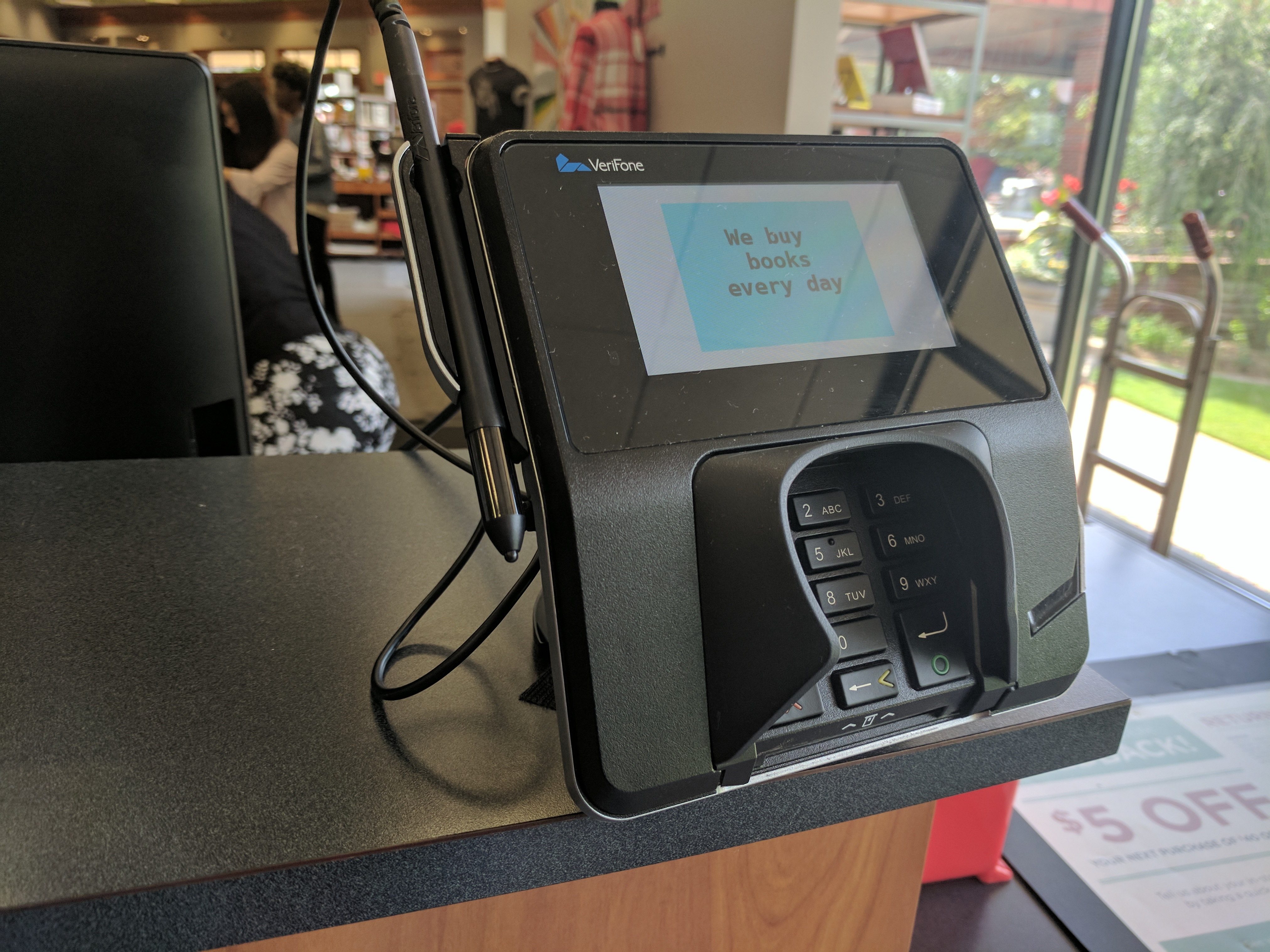 A VeriFone touch screen based point of sale payment terminal connected to a cash register at a US university bookstore